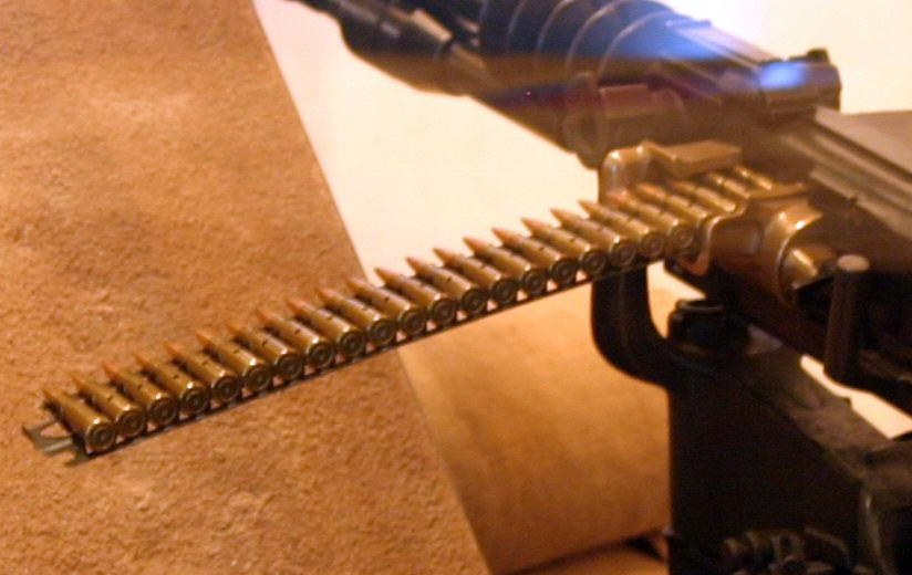 This image was taken at the Musée de l'Armée, Paris.